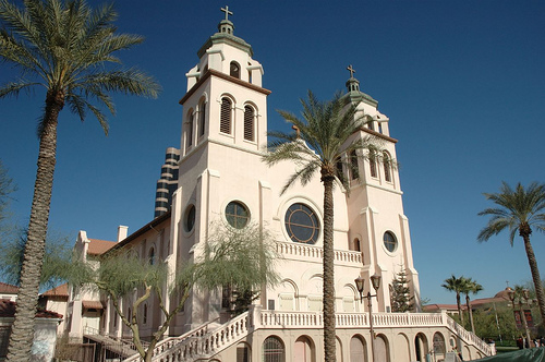 Saint Mary's Basilica on the corner of 3rd Street and Brazos in downtown Phoenix, AZ.